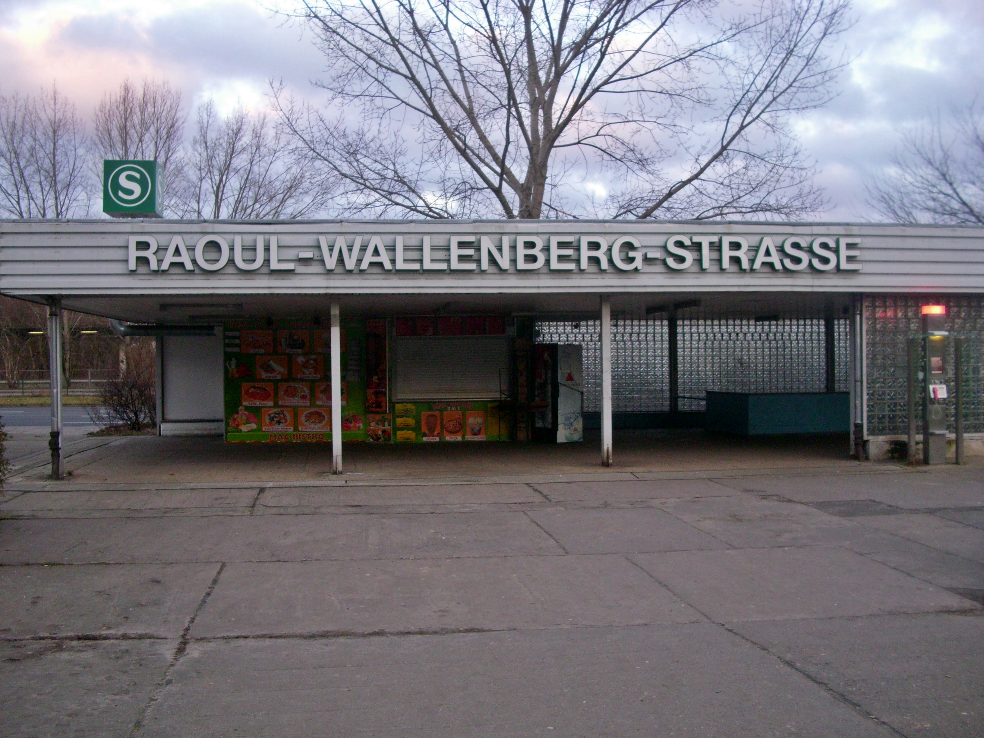 S-Bahnhof Berlin Raoul Wallenberg Street